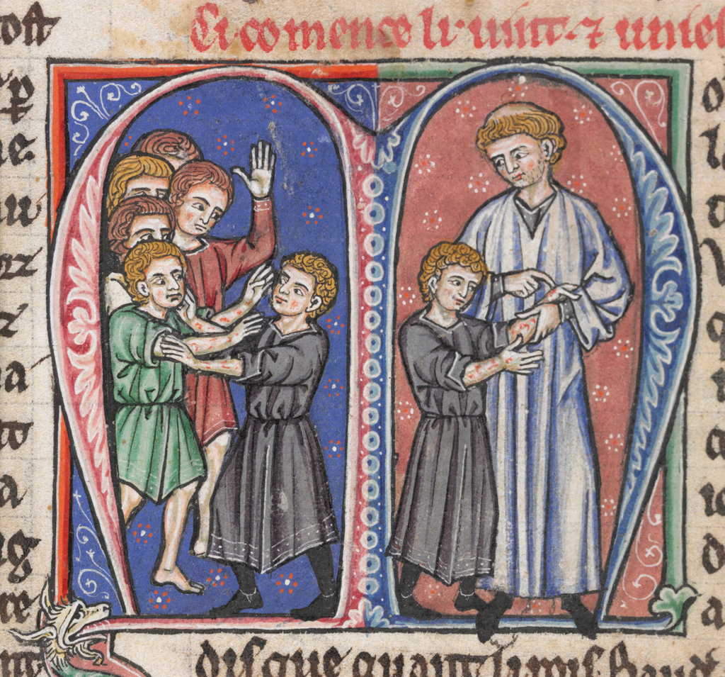 Miniature from a French translation of William of Tyre's Historia rerum in partibus transmarinis gestarum, (British Library, London) It depicts William's discovery of leprosy in the future Baldwin IV.